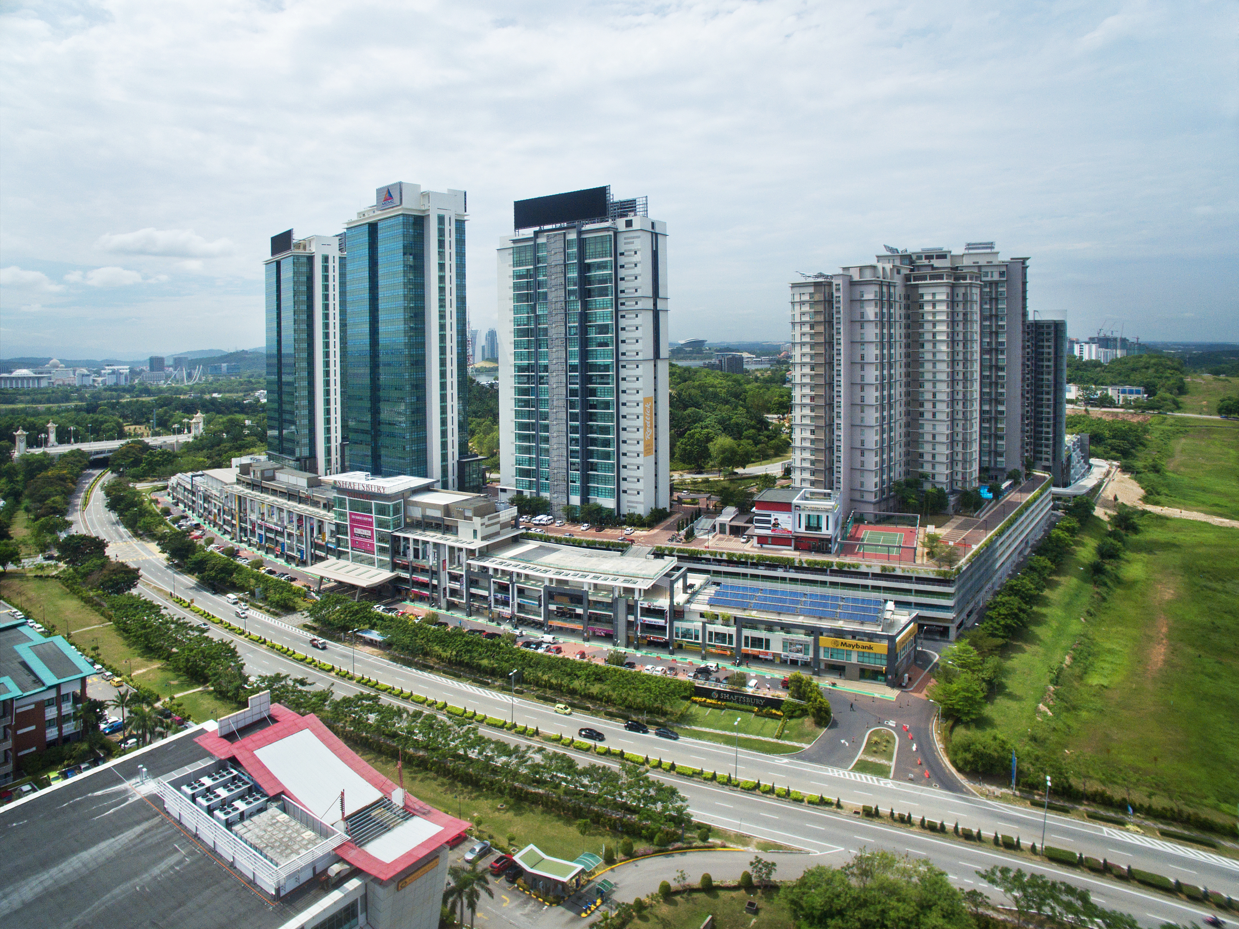 Shaftsburry Square Cyberjaya